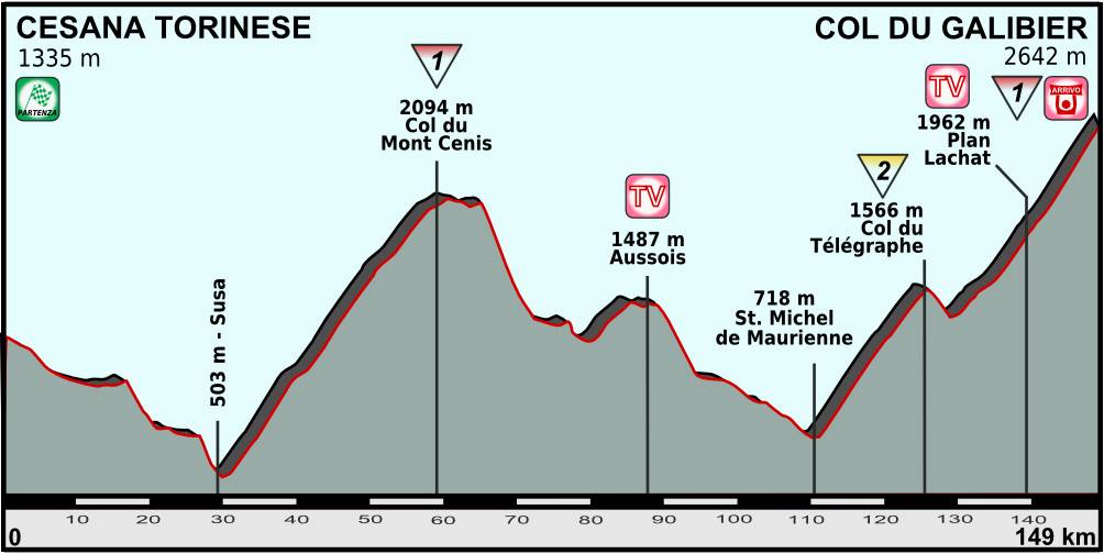 Giro d'Italia 2013 - stage profile # 15